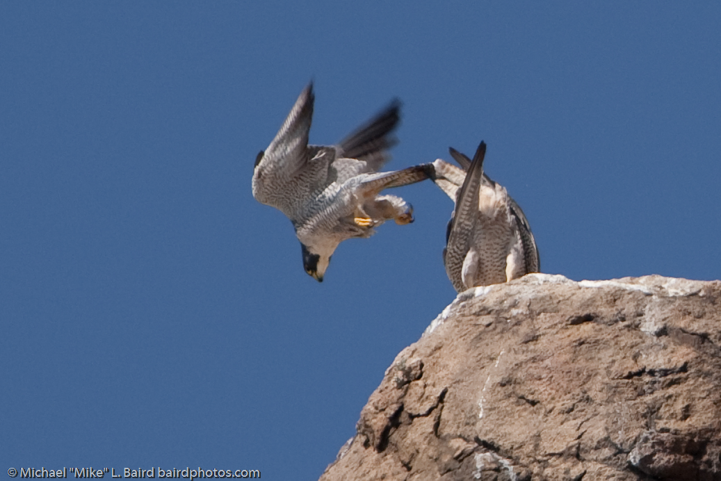 Peregrine Falcons (Falco peregrinus) post-mating on Morro Rock, Morro Bay, CA, 12 Feb. 2009. Photo by Michael "Mike" L. Baird, , Canon 1D Mark III, 300mm f/2.8 IS w/ Canon EF 2X II Extender Telephoto Accessory and circular polarizer, on a useless monopod suspended in the air. See another image taken just before this one . Because I walked to the Rock for over a mile to get to this scene, I was not able to manage the setup with the 600mm f/4 lens with full Gitzo tripod and Wimberley head which weighs in near 25#.